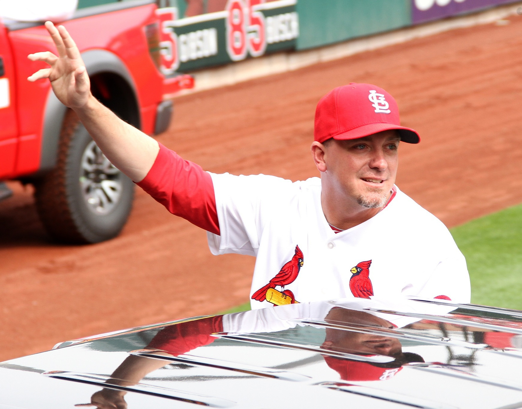 St. Louis Cardinals pitcher Randy Choate